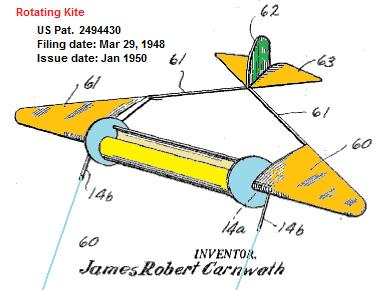 Magnus-effect rotarty kite by James R. Carnwath in March of 1948.